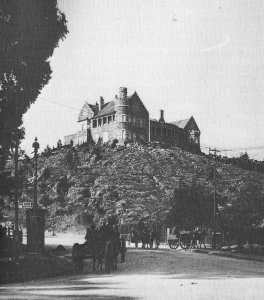 The house was built in 1902 for John Dowell Ellis, who was to become mayor of Johannesburg in 1912.